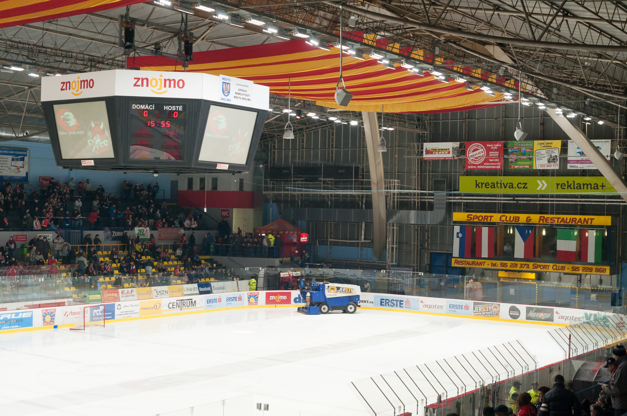 EBEL Orli Znojmo vs. HC Bolzano 2016-02-05